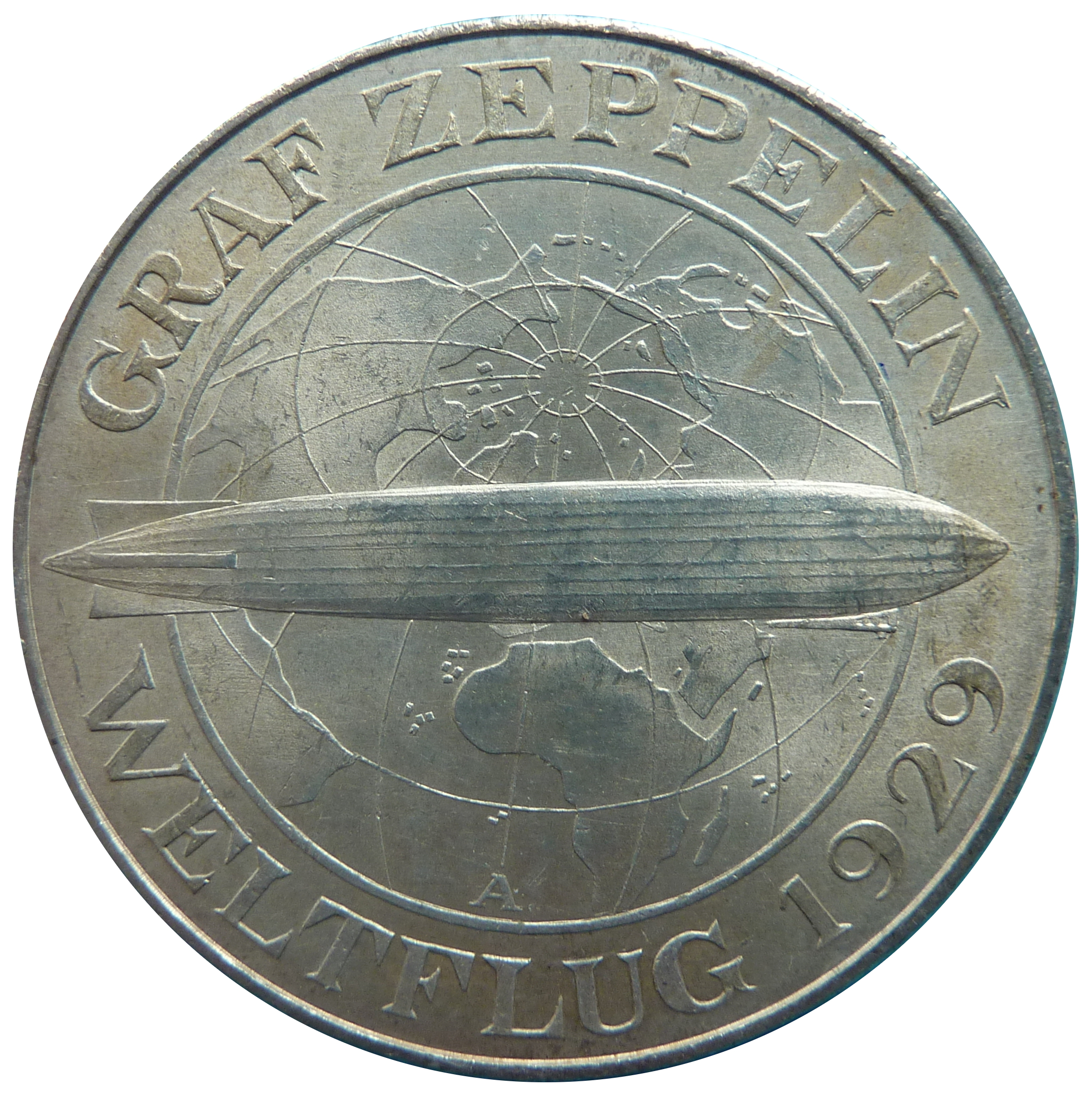 Reverse of the commemorative coin "Zeppelin" of the Weimar Republic